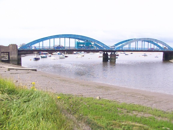 Foryd Bridge over River Clwyd. The bridge is now referred to locally as the blue bridge